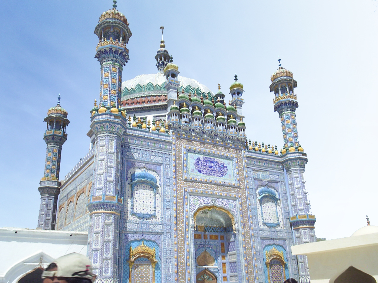 Shrine of Hazrat Sachal Sarmast